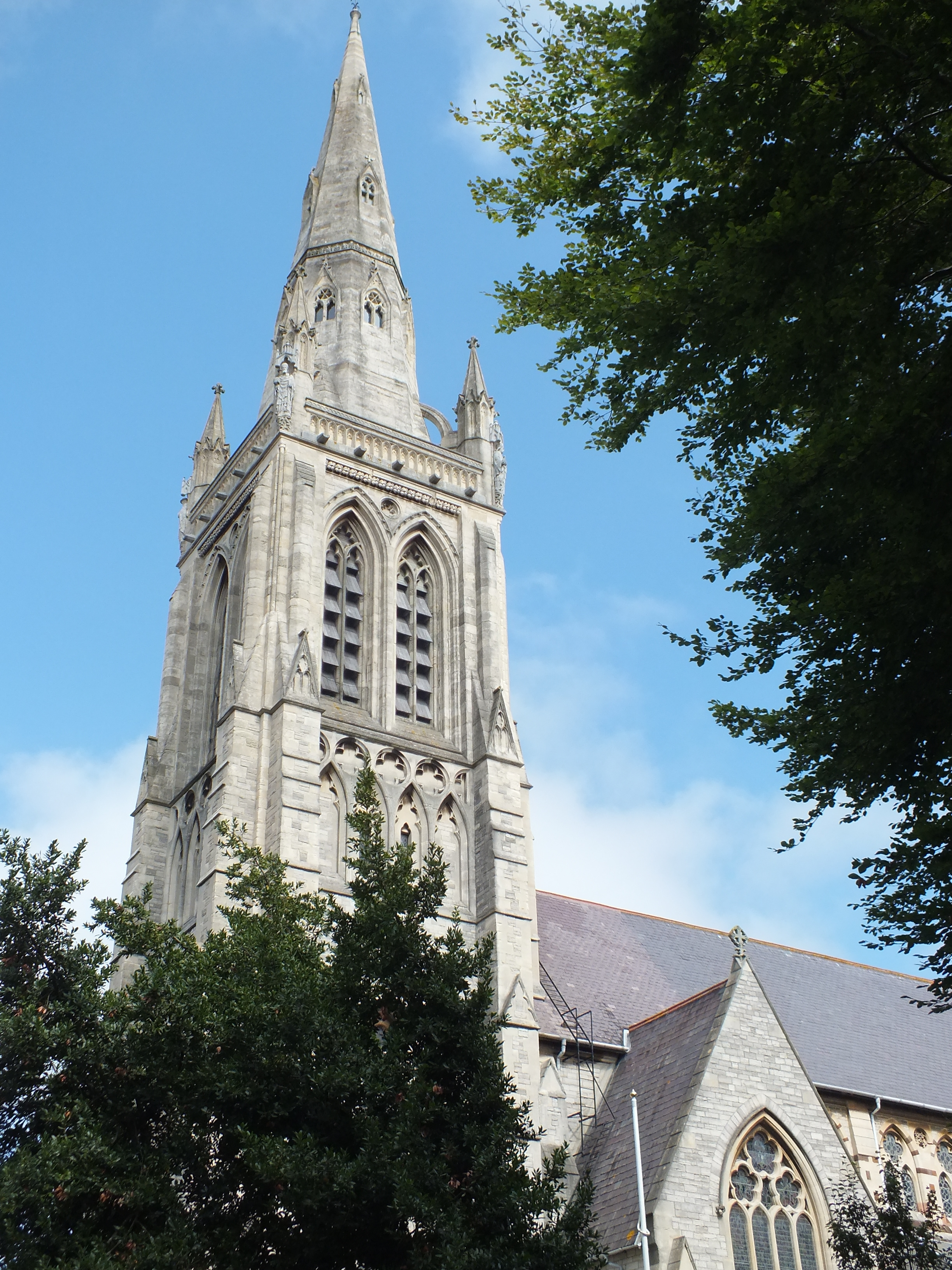 St. Peter's Church, Bournemouth, from Hinton Road.